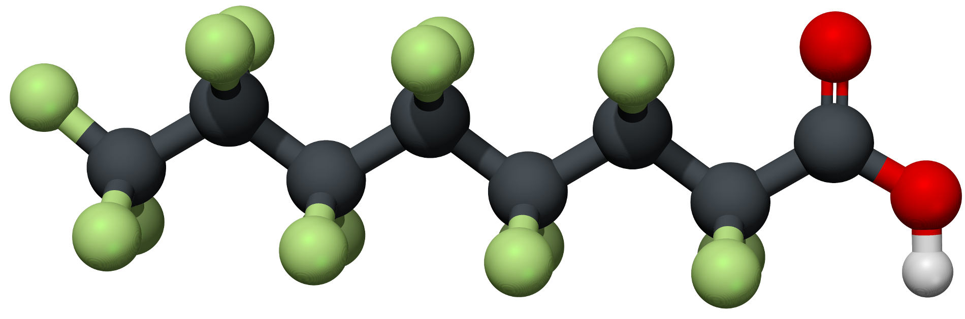 3D model of a PFOA (perfluorooctanoic acid) molecule, in its acid form